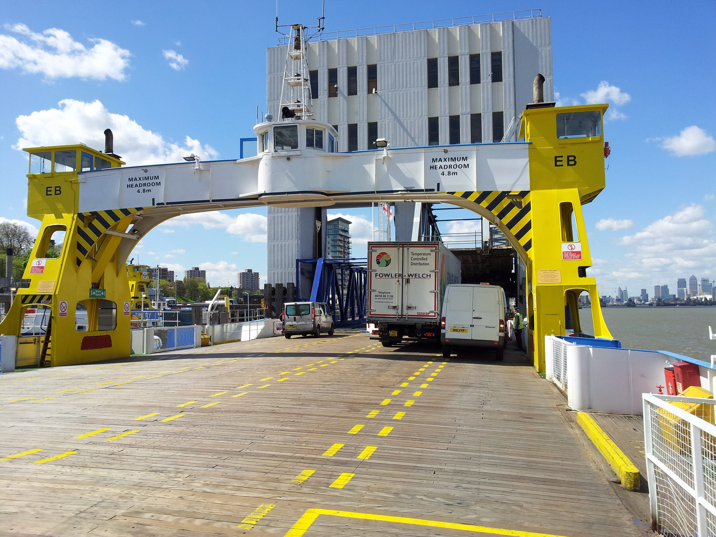 View of the Woolwich Ferry and the river Thames.